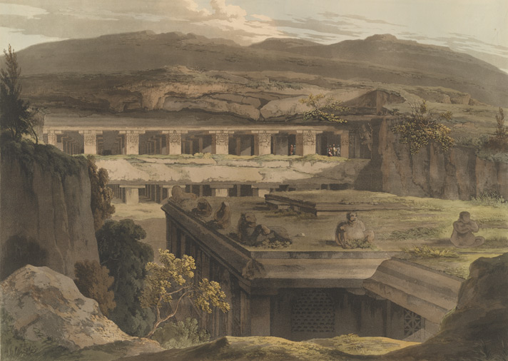 Das Avatara, by Thomas Daniell and James Wales, 1803